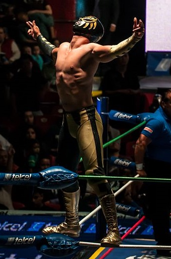 Masked Mexican wrestler Oro Jr. during a match